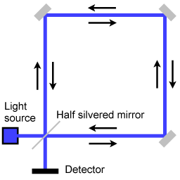 Sagnac interferometer with three mirrors